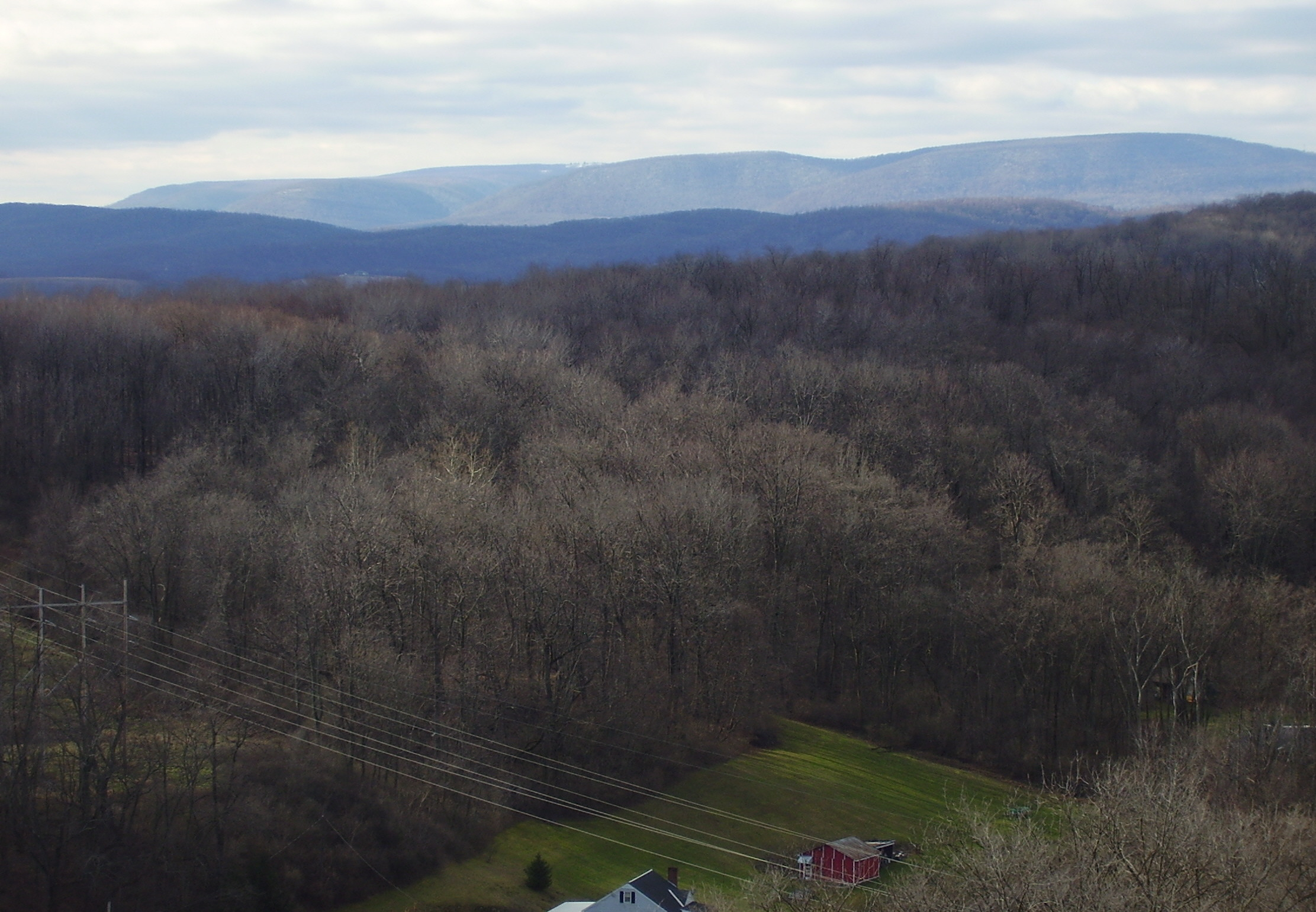 Blue Knob massif from Chimney Rocks Hollidaysburg, Pennsylvania